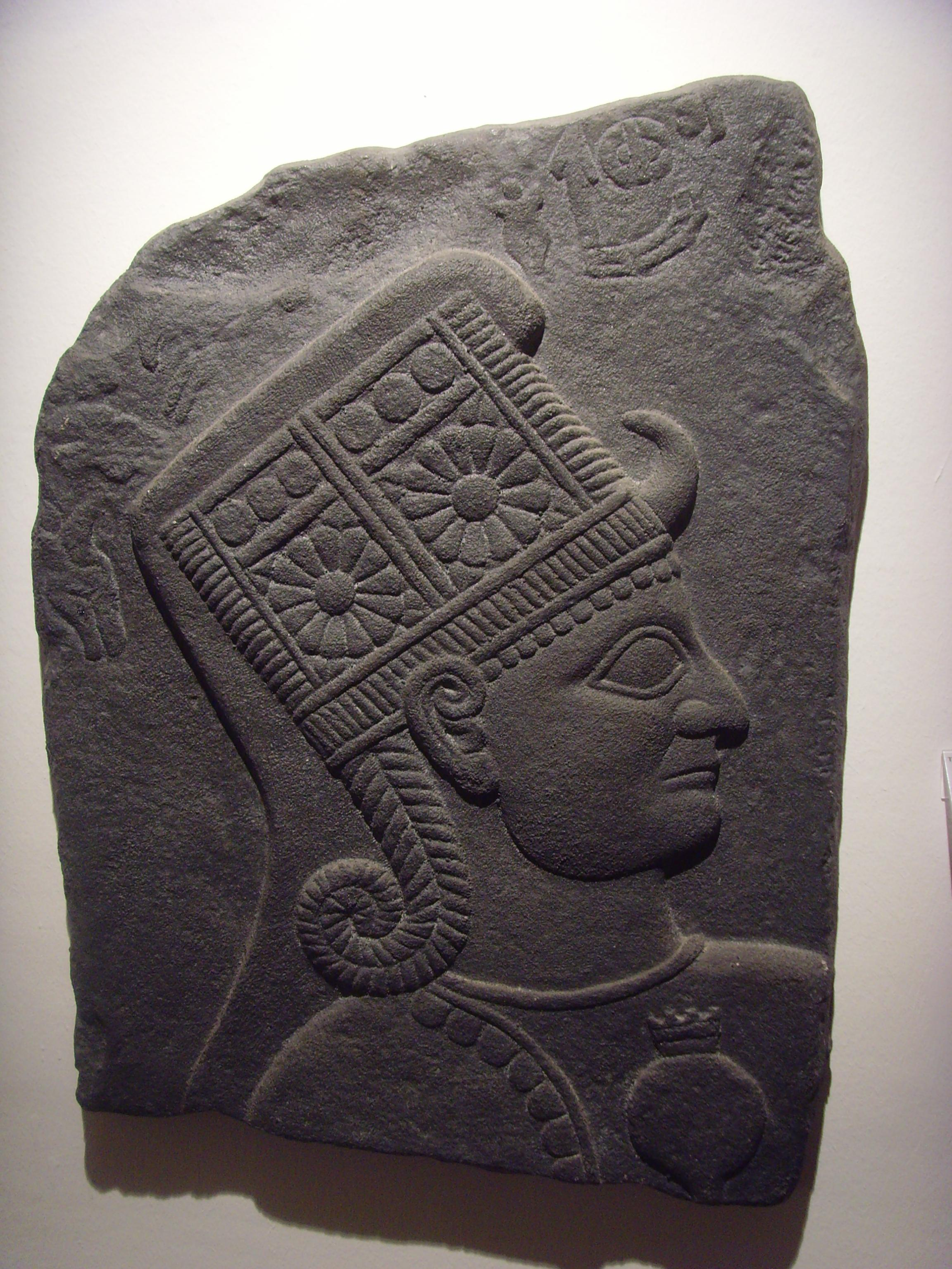 Kubaba relief in the form of a goddess - Basalt - Carchemish - Late Hittite period (8th century B.C.) - From the collection of The Museum of Anatolian Civilizations - photographed at The Turkish and Islamic Arts Museum during a temporary exhibition